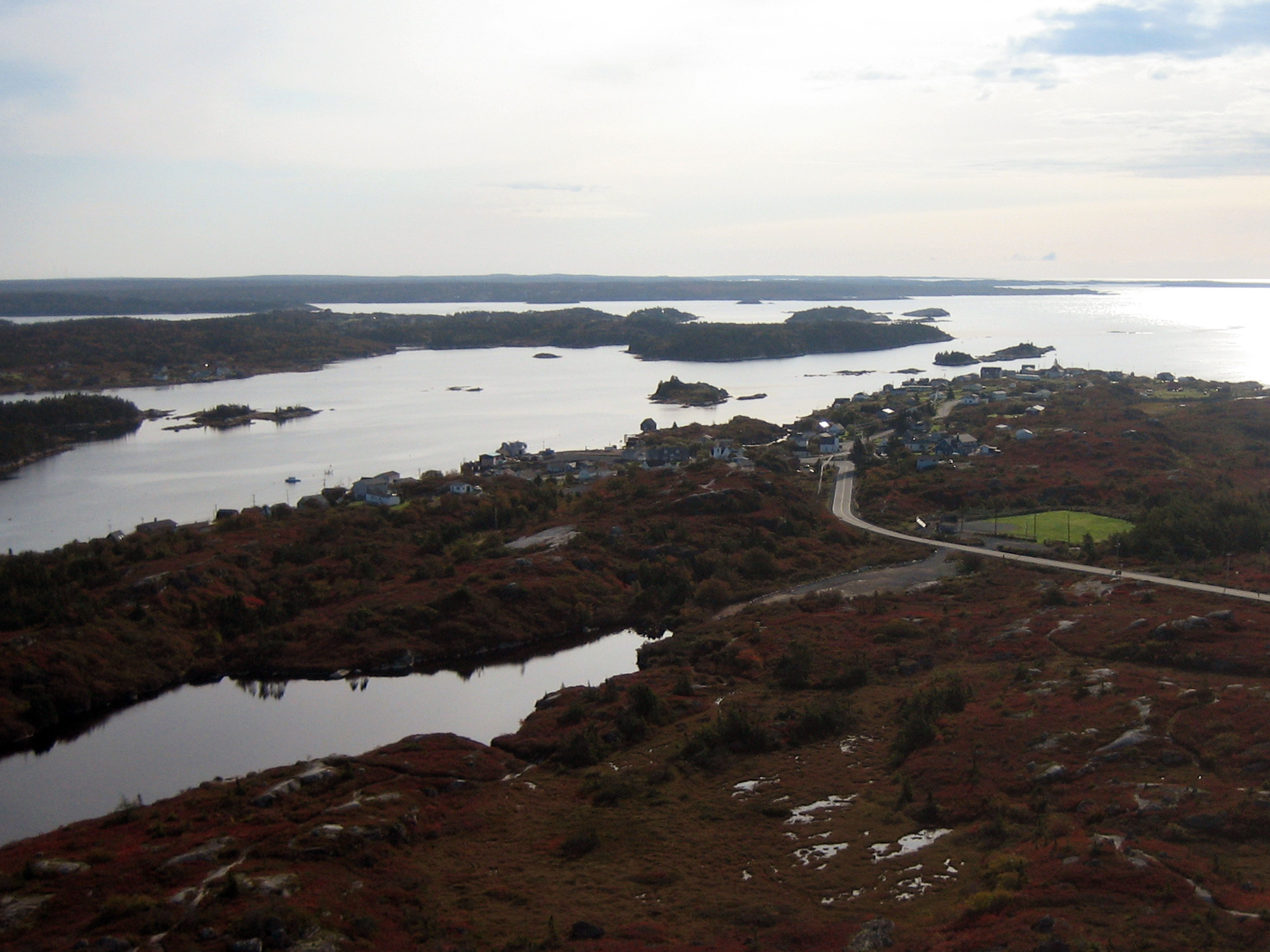 An aerial view of West Dover, Nova Scotia, Canada.